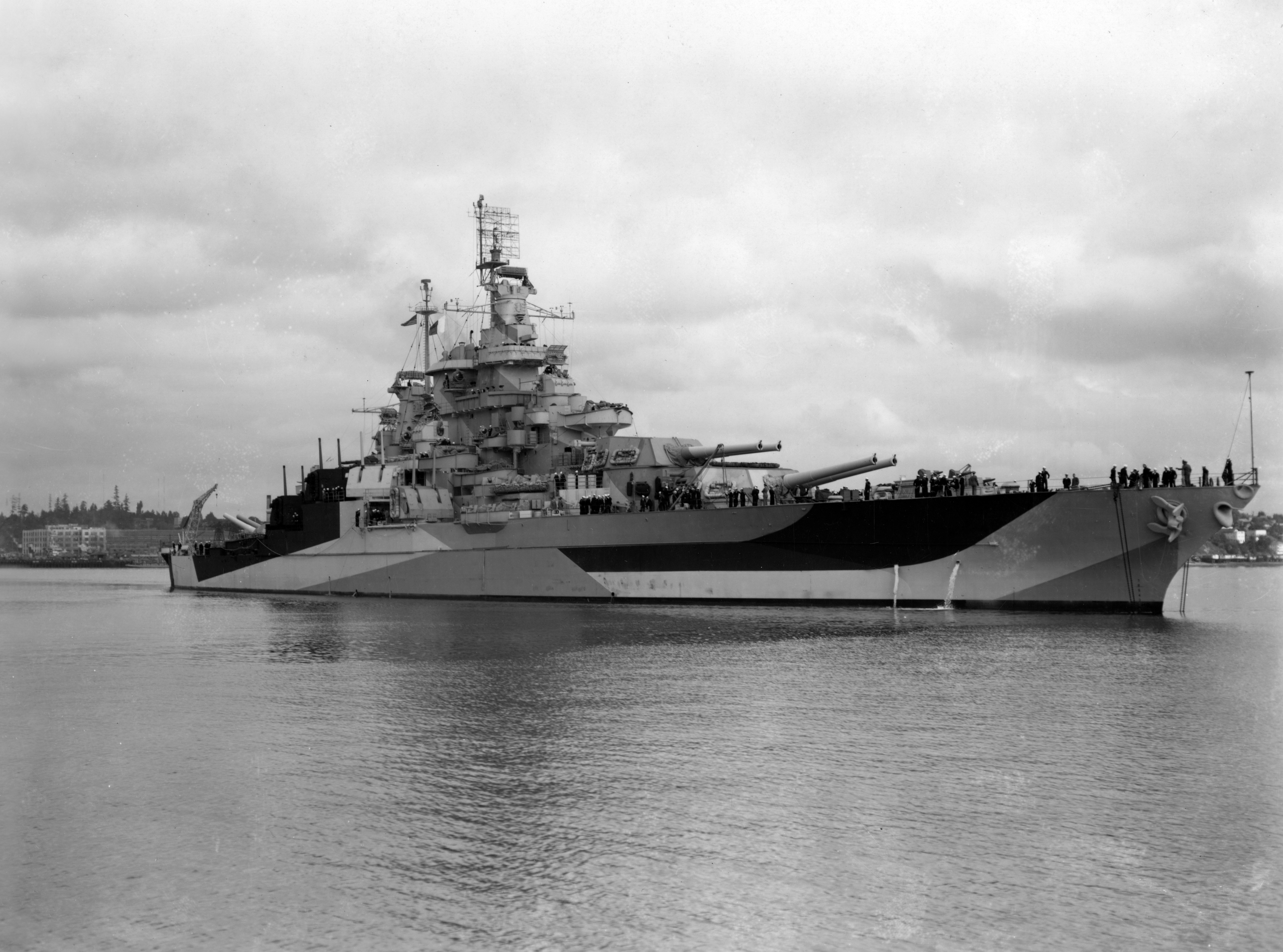 The U.S. Navy battleship USS West Virginia (BB-48) off the Puget Sound Naval Shipyard, Washington (USA), 2 July 1944, following reconstruction. She is painted in Camouflage Measure 32, Design 7D.